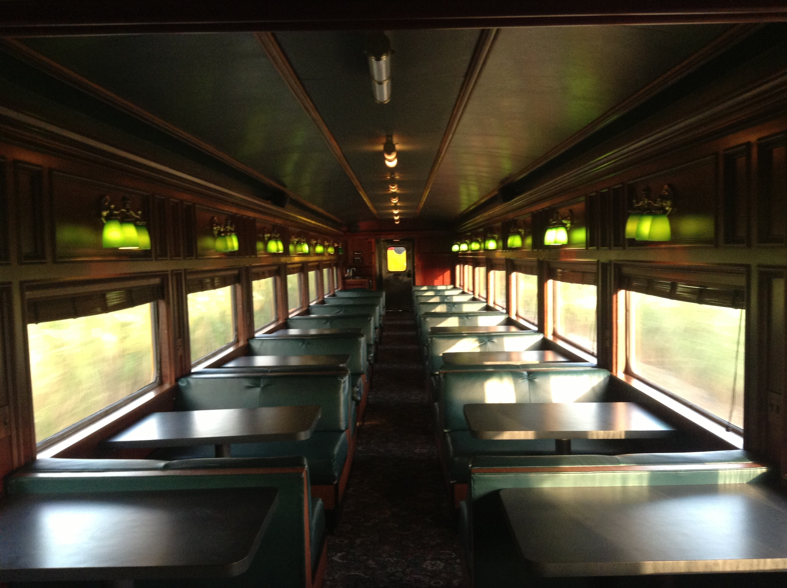 The interior of a Panama Canal Railway Train